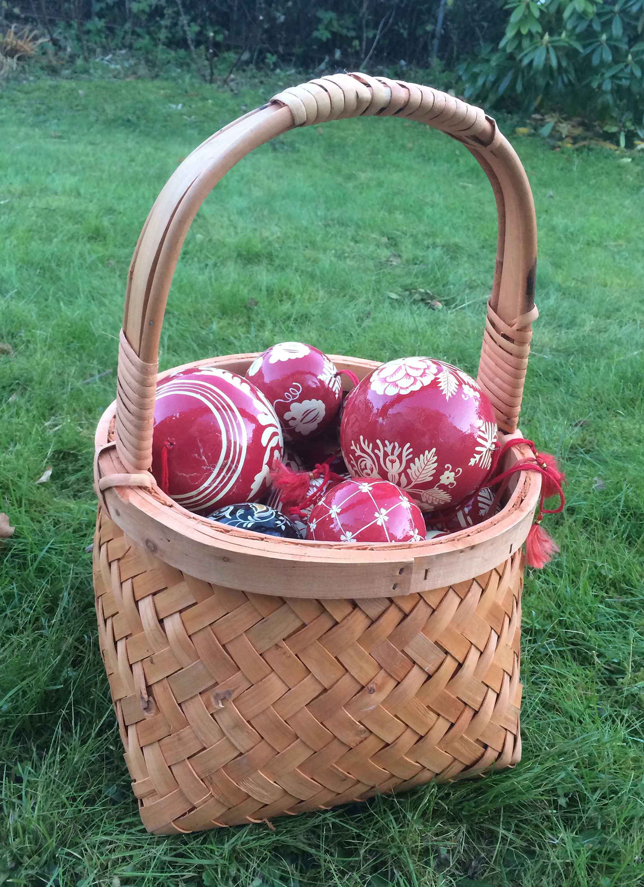 A basket full of Christmas baubles designed by the Norwegian designer Lise Skjåk Bræk